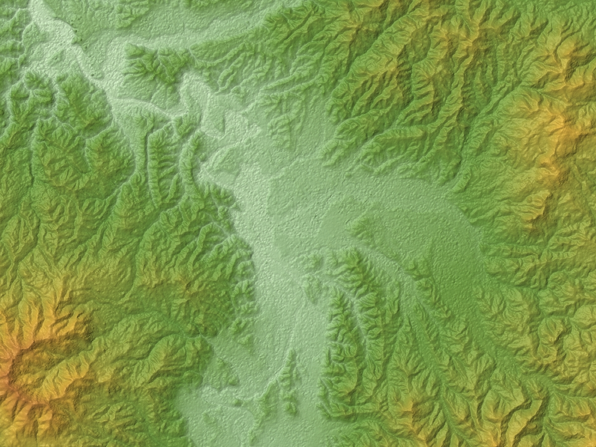 Obanaza Basin in Yamagata Prefecture, Honshu, Japan.